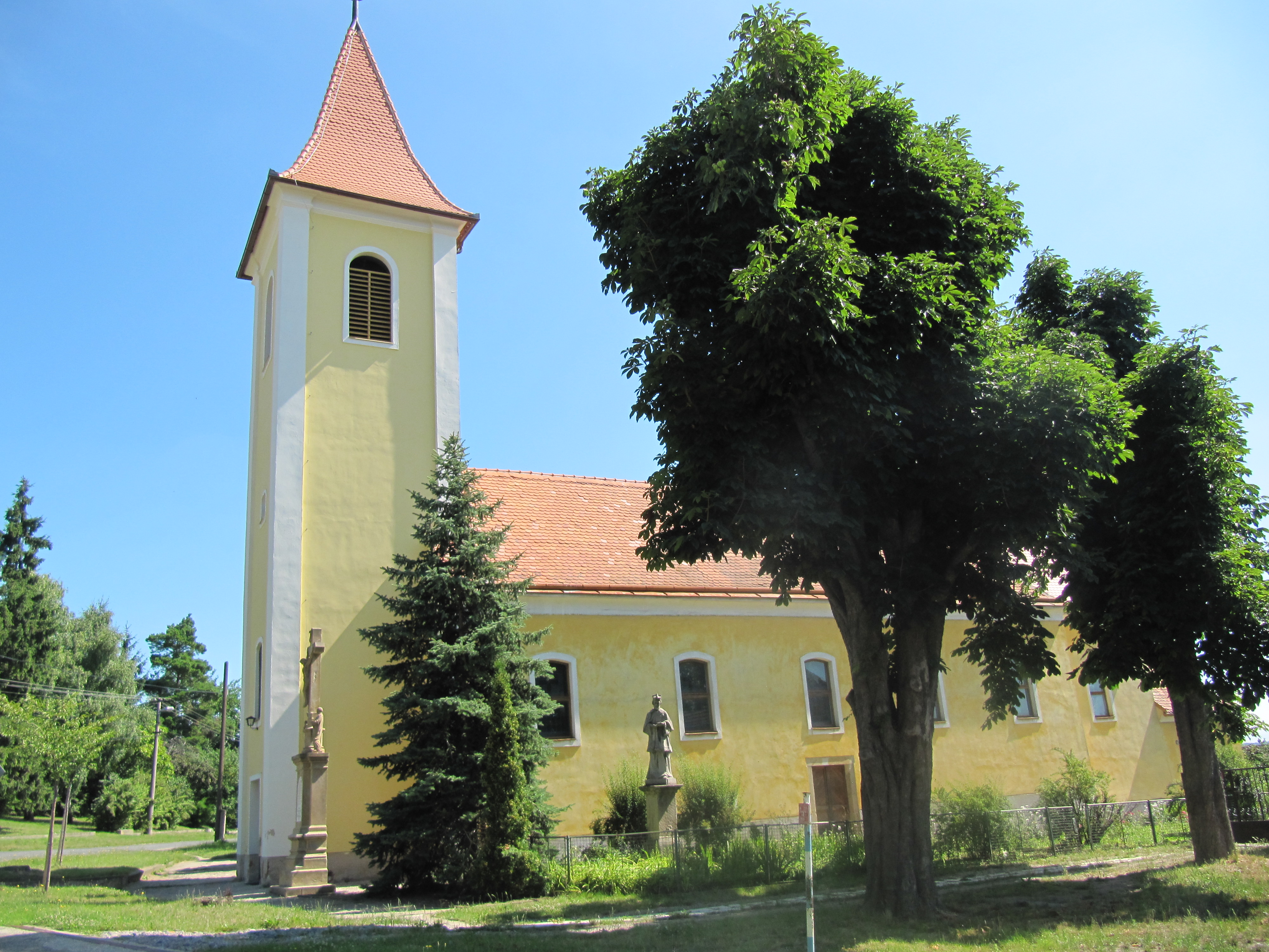 Týnec in Břeclav District, Czech Republic. Church of the Beheading of St. John the Baptist. This photograph was taken within the scope of the third year of the 'Czech Municipalities Photographs' grant.